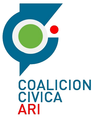 Logo for the Argentine political party "Coalición Cívica ARI".